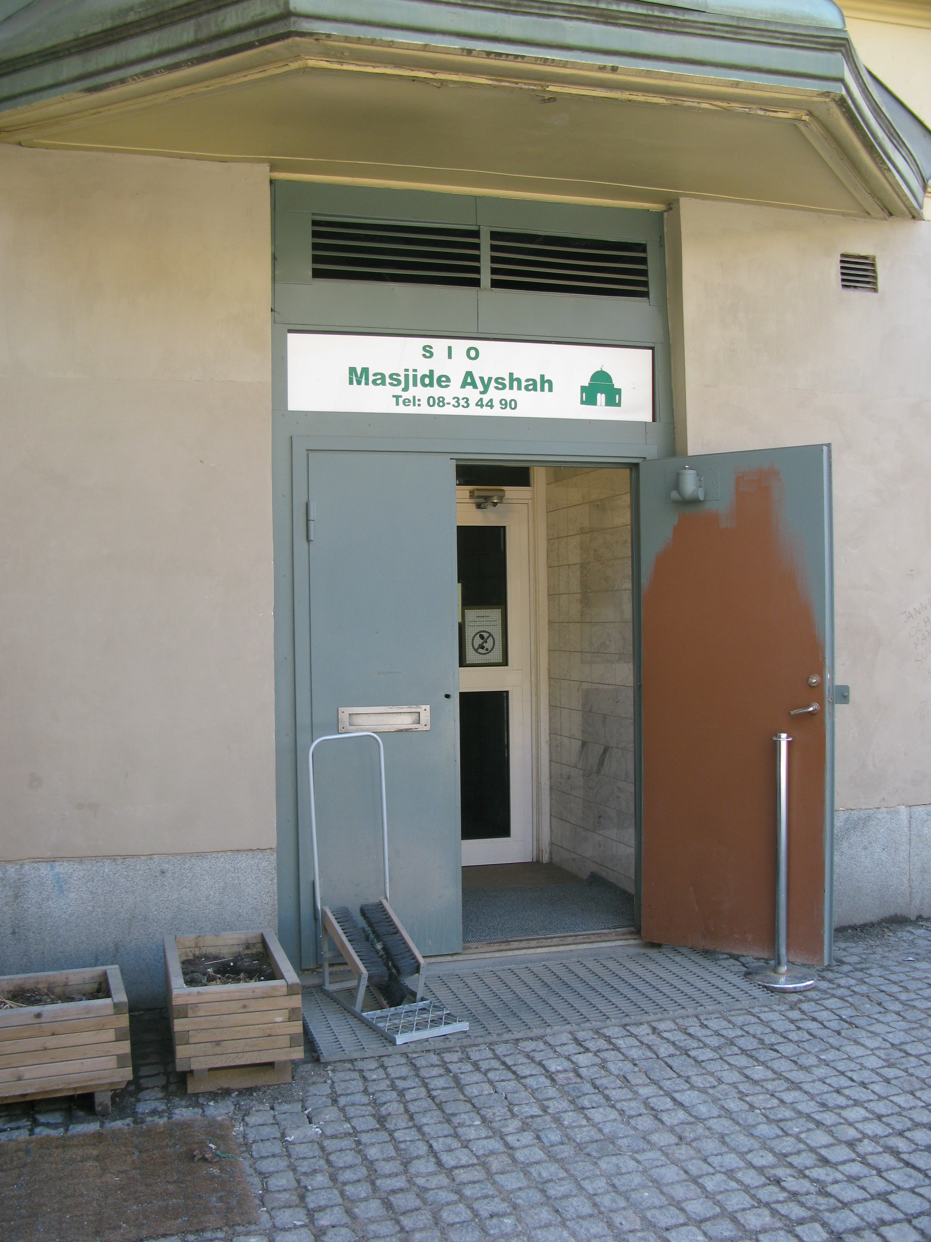 A mosque at St Eriksgatan 89 in Stockholm, Sweden